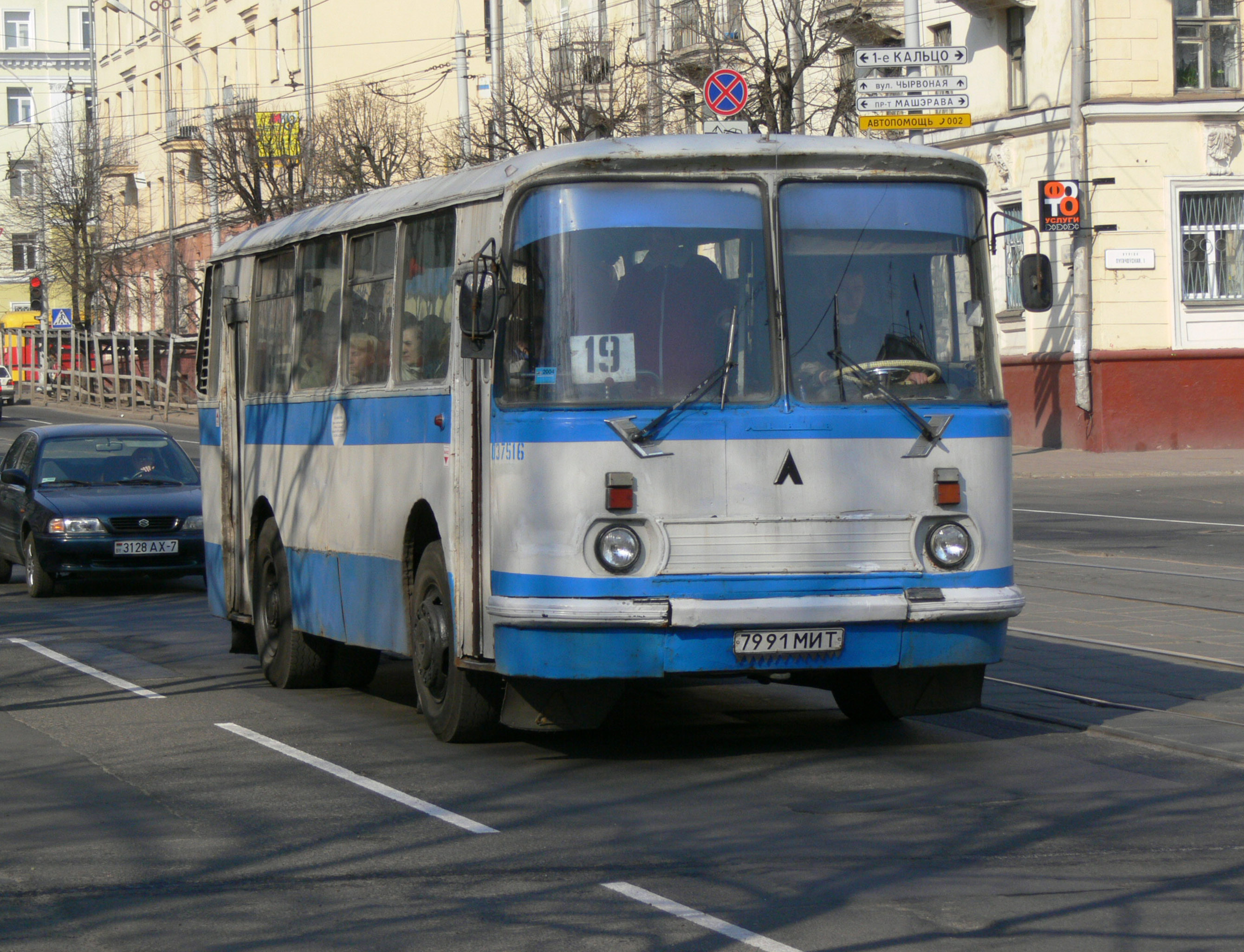 LAZ 695n bus (#037516) in Minsk, Belarus.